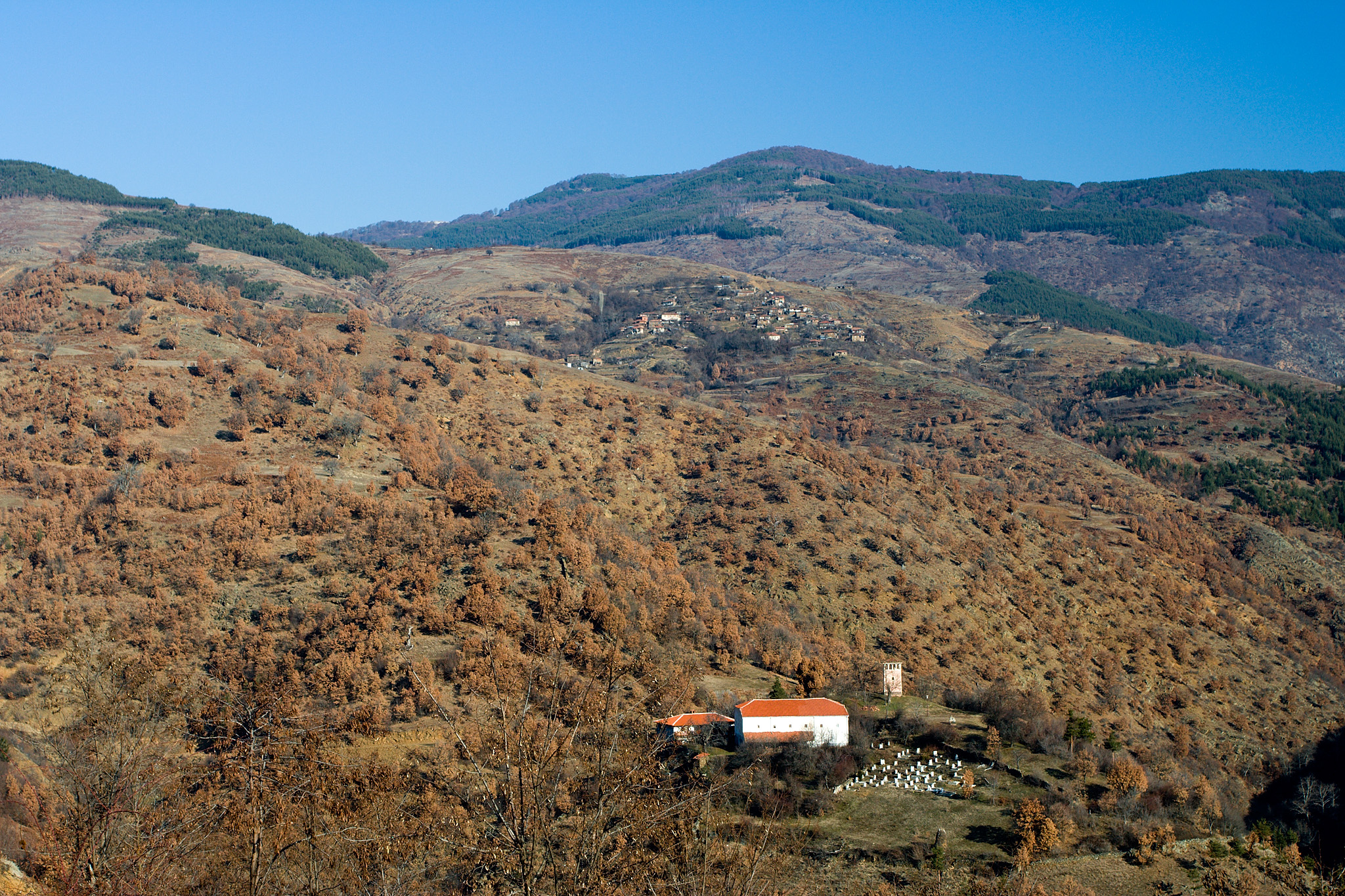 Churilovo monastery in Ograzden mountain, Bulgaria.